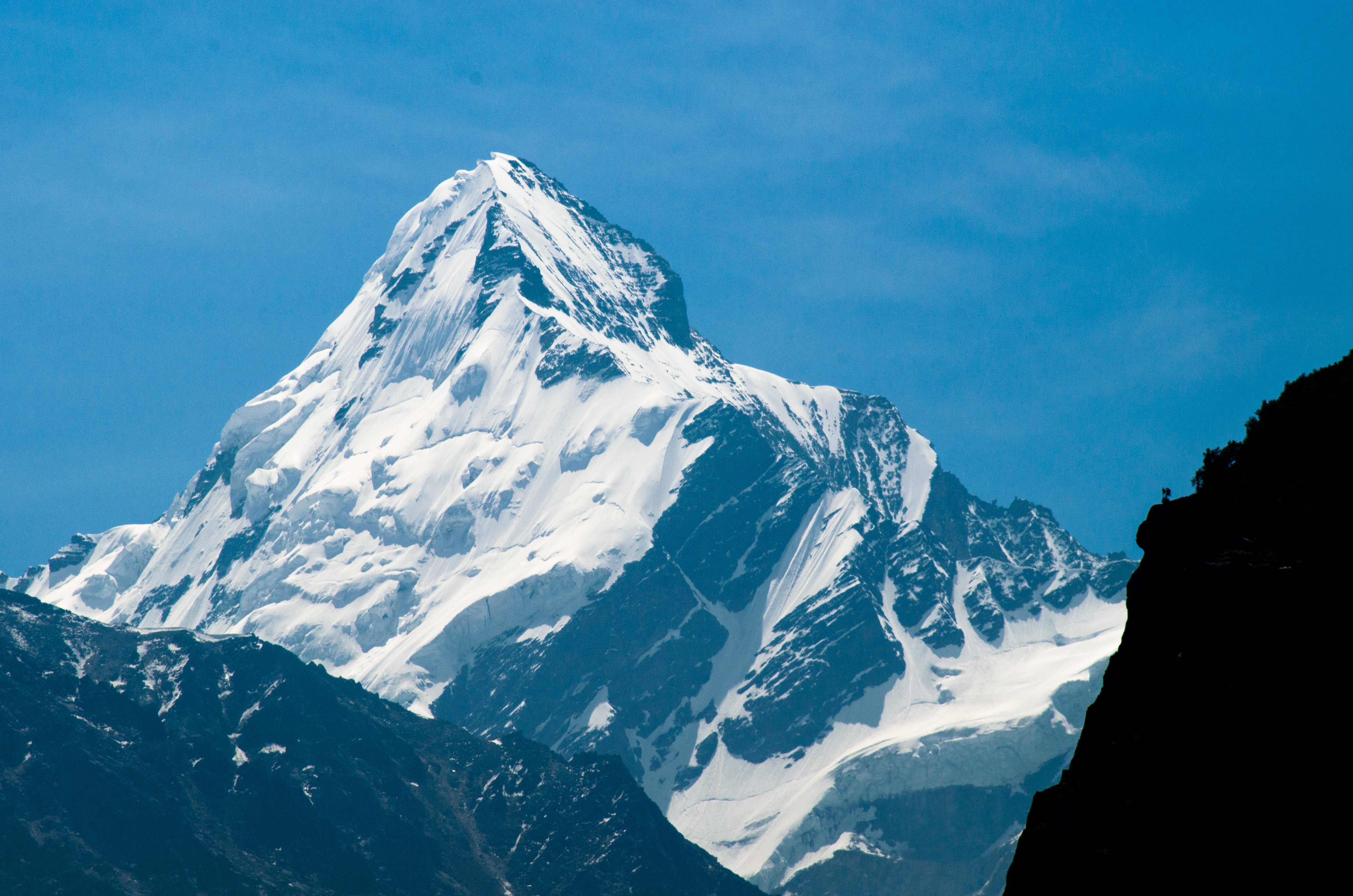 Gangotri Glacier view